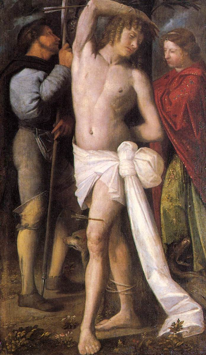 Saint Sebastian between Saint Rocco and Saint Margaritalabel QS:Lit,"San Sebastiano e i santi Rocco e Margherita." label QS:Len,"Saint Sebastian between Saint Rocco and Saint Margarita" label QS:Les,"San Sebastián entre San Roque y Santa Margarita"